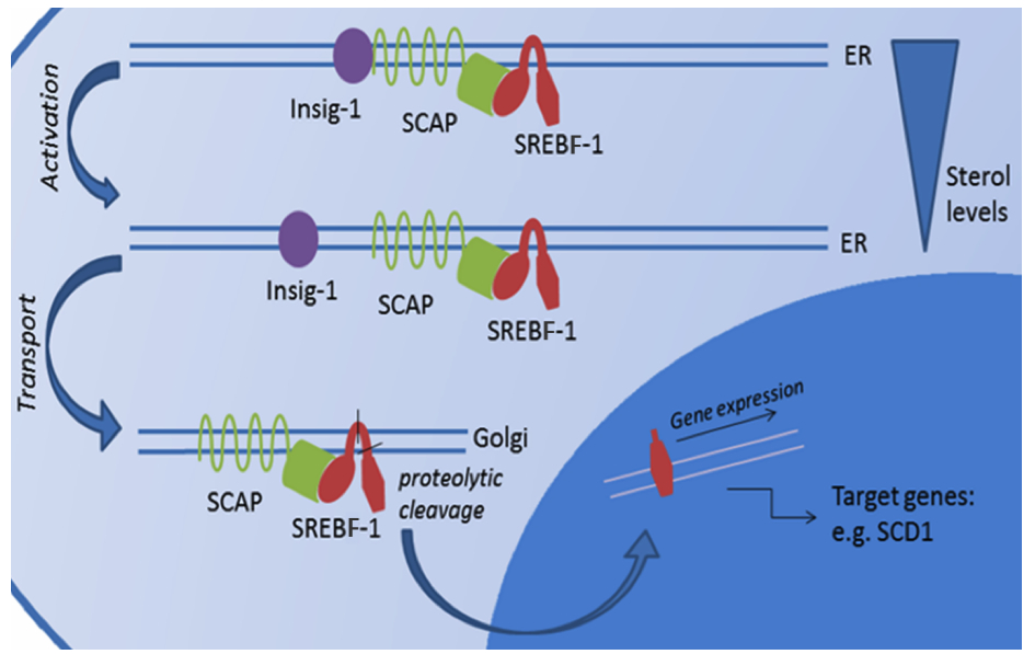 SREBF-1 is synthesized as inactive precursors in ER, where it resides in a complex with SCAP, a sterol sensor, and INSIG-1. Upon activation, when sterol levels are low, SCAP undergoes a conformational change and is released from INSIG. SCAP assists the transport of the precursor SREBF-1 to the Golgi apparatus followed by a two-step proteolytic cleavage thus releasing a transcriptionally active N-terminal domain. This domain is subsequently translocated to the nucleus, resulting in the expression of SREBF target genes.